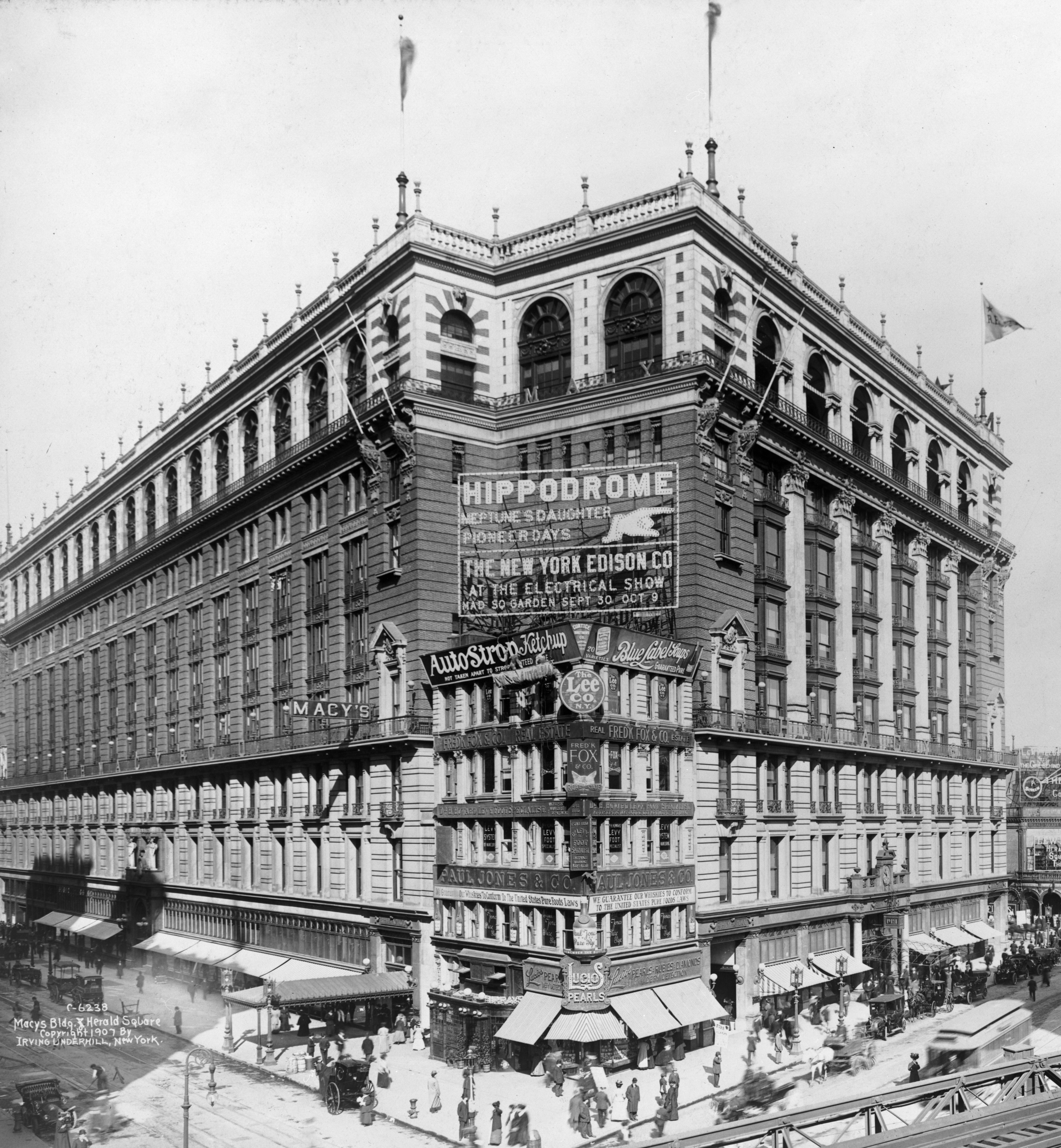 Macy's Bldg. & Herald Square, New York City, 1907.